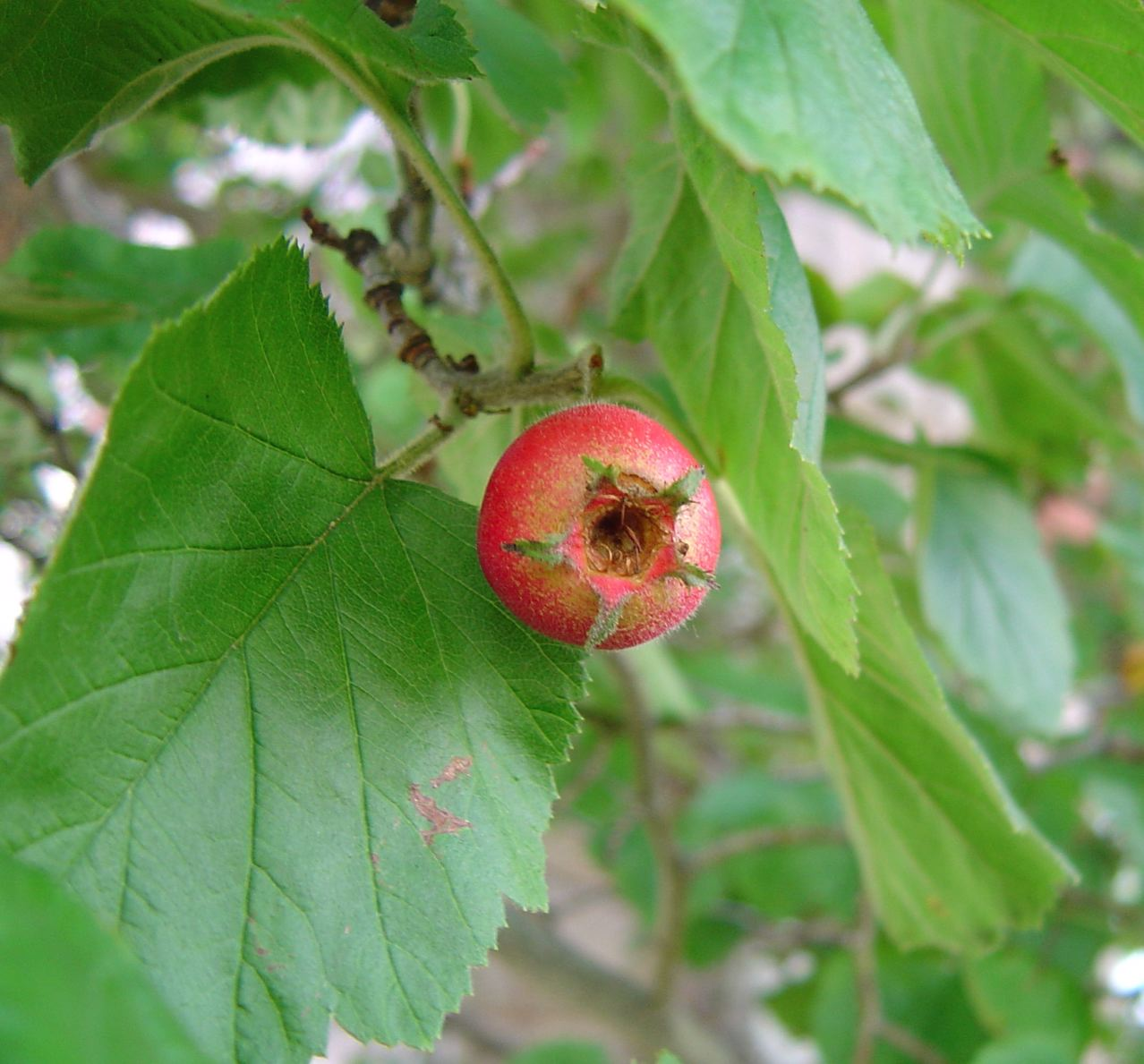 Tree cultivated on University of Colorado campus, Boulder, Colorado